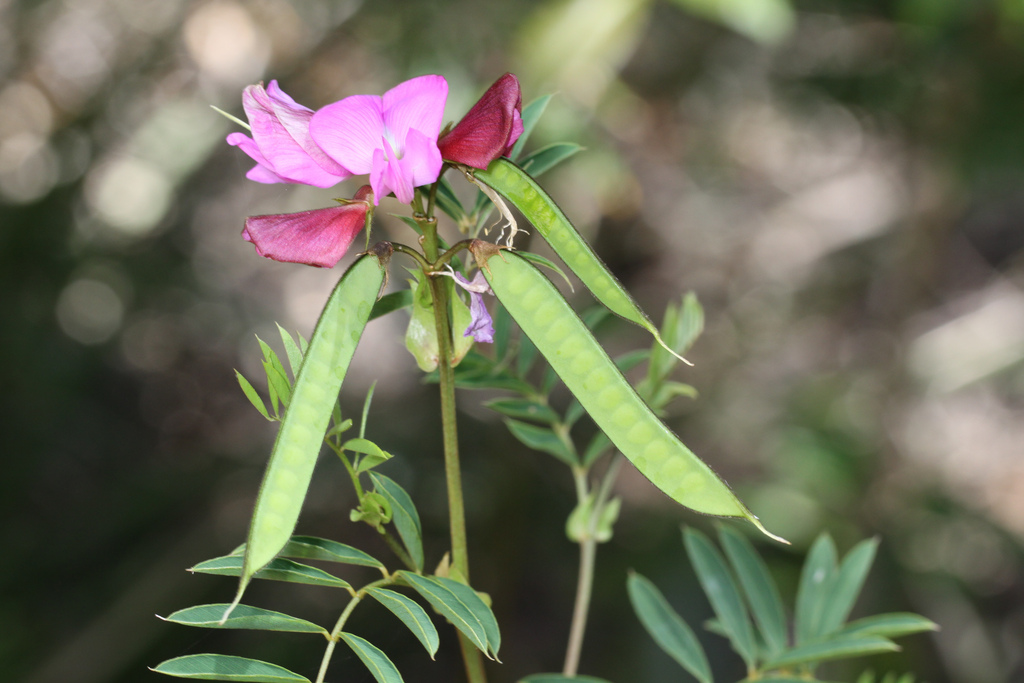 Smooth Darling Pea - Swainsona galegifolia